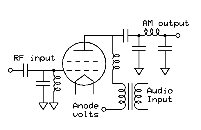 Simplified schematic of a plate modulated AM transmitter stage.